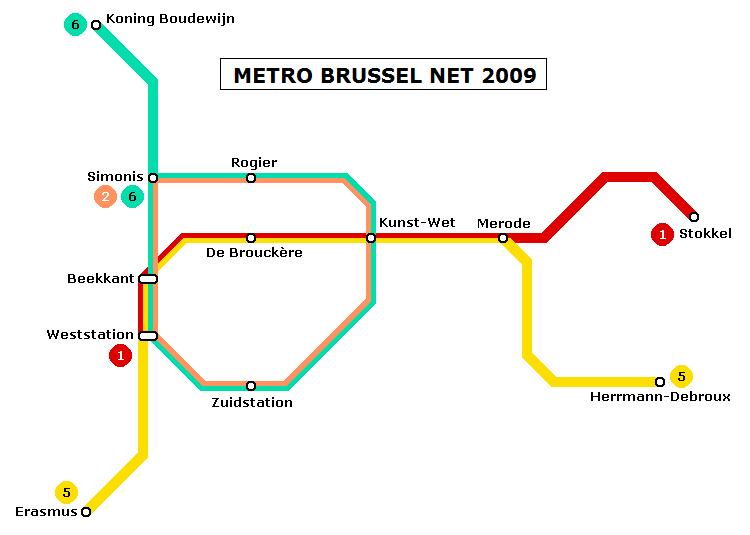 Planned network 2009 of the Metro Brussels